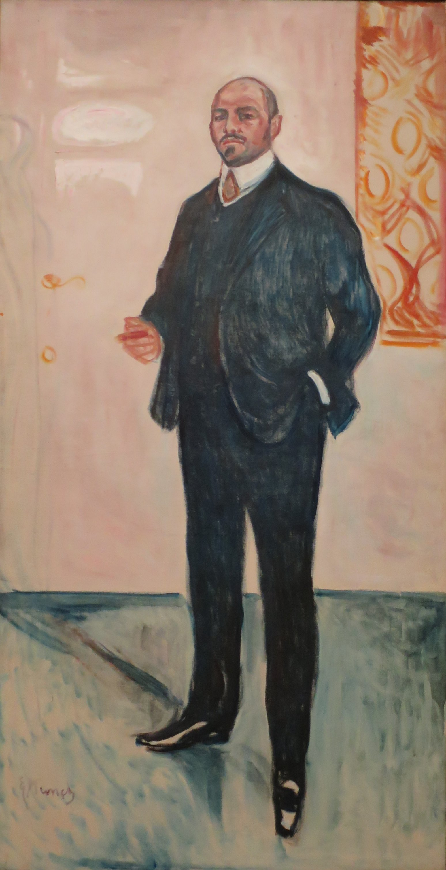 Walter Rathenau